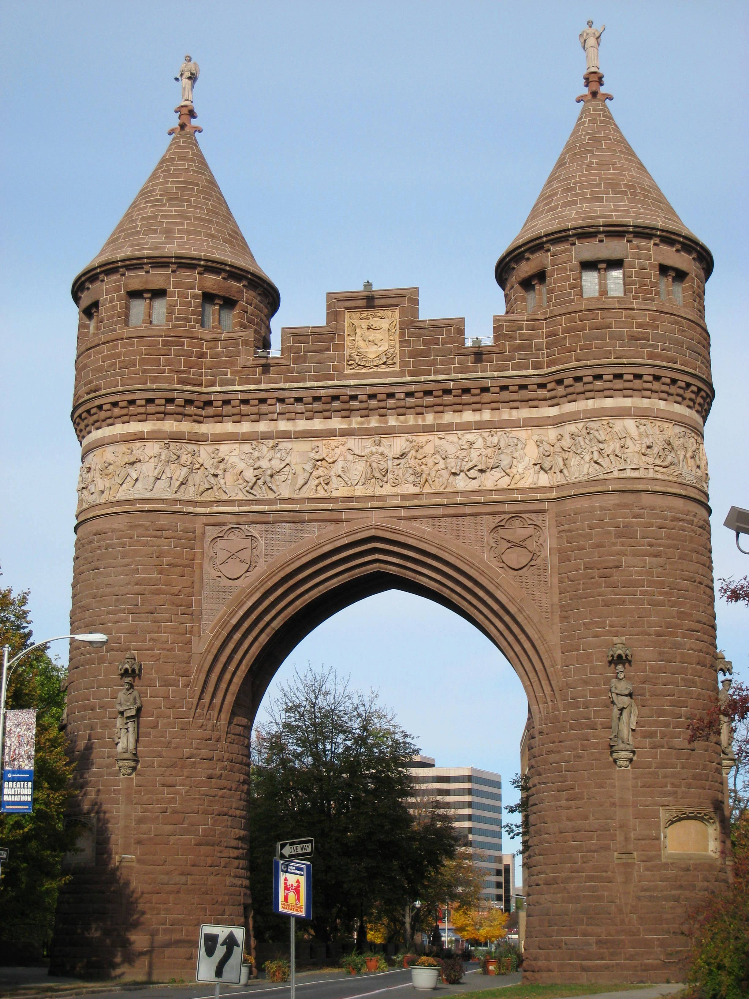 South face - Soldiers and Sailors Memorial Arch, Bushnell Park, Hartford, Connecticut, USA. This arch and its artwork was dedicated Sept. 17, 1886, and hence is no longer subject to any form of copyright restrictions. According to records in the Smithsonian Institute, the south frieze was carved by Caspar Buberl (1834-1899) which matches the signature on the frieze. Again, copyright has expired since he died more than 70 years ago.